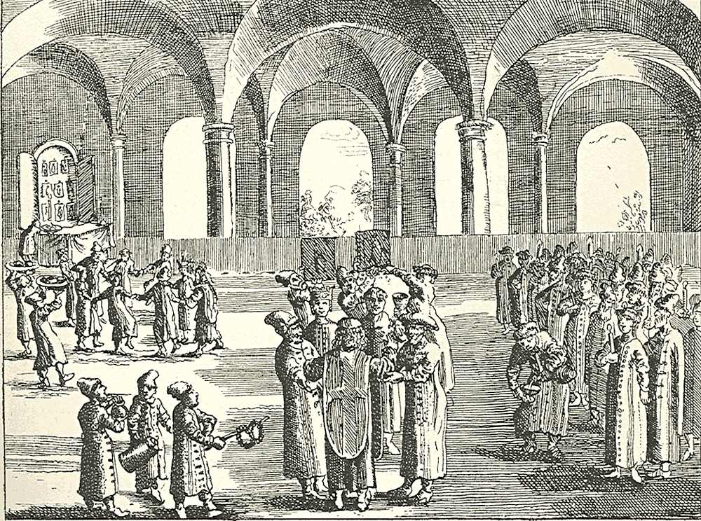 Wedding ceremony